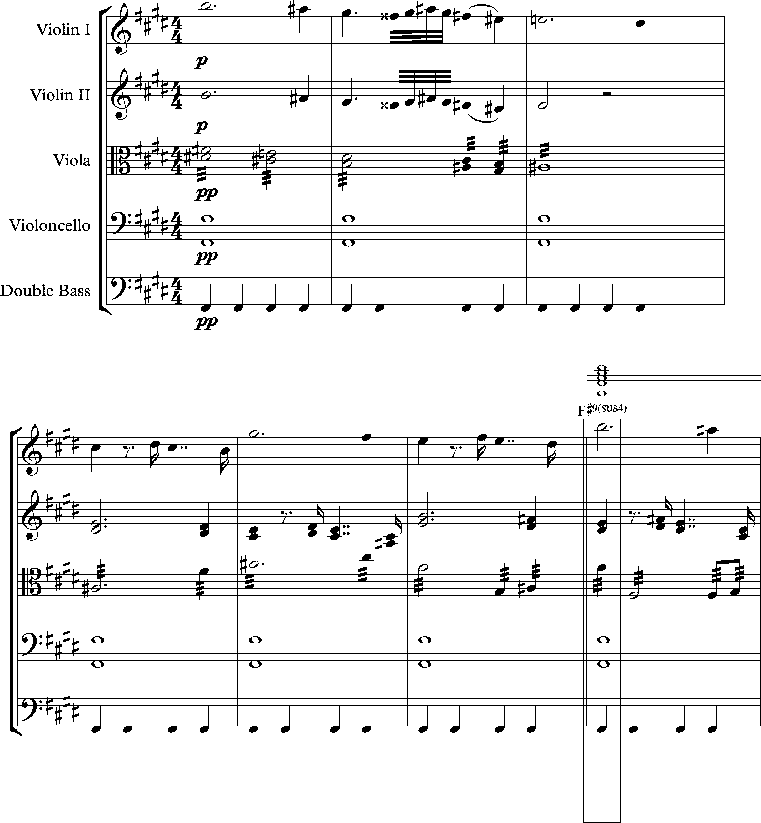 Bruckner Symphony No. 7, first movement, bars 103-9